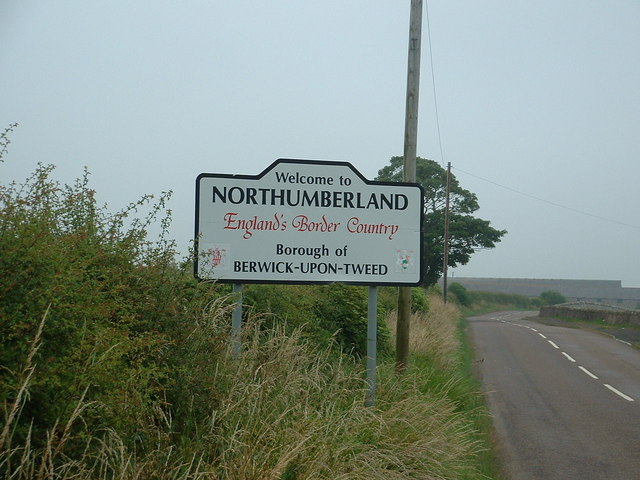 England/Scotland border on the B6461. On the Kelso to Berwick road. Pennine Cycleway.